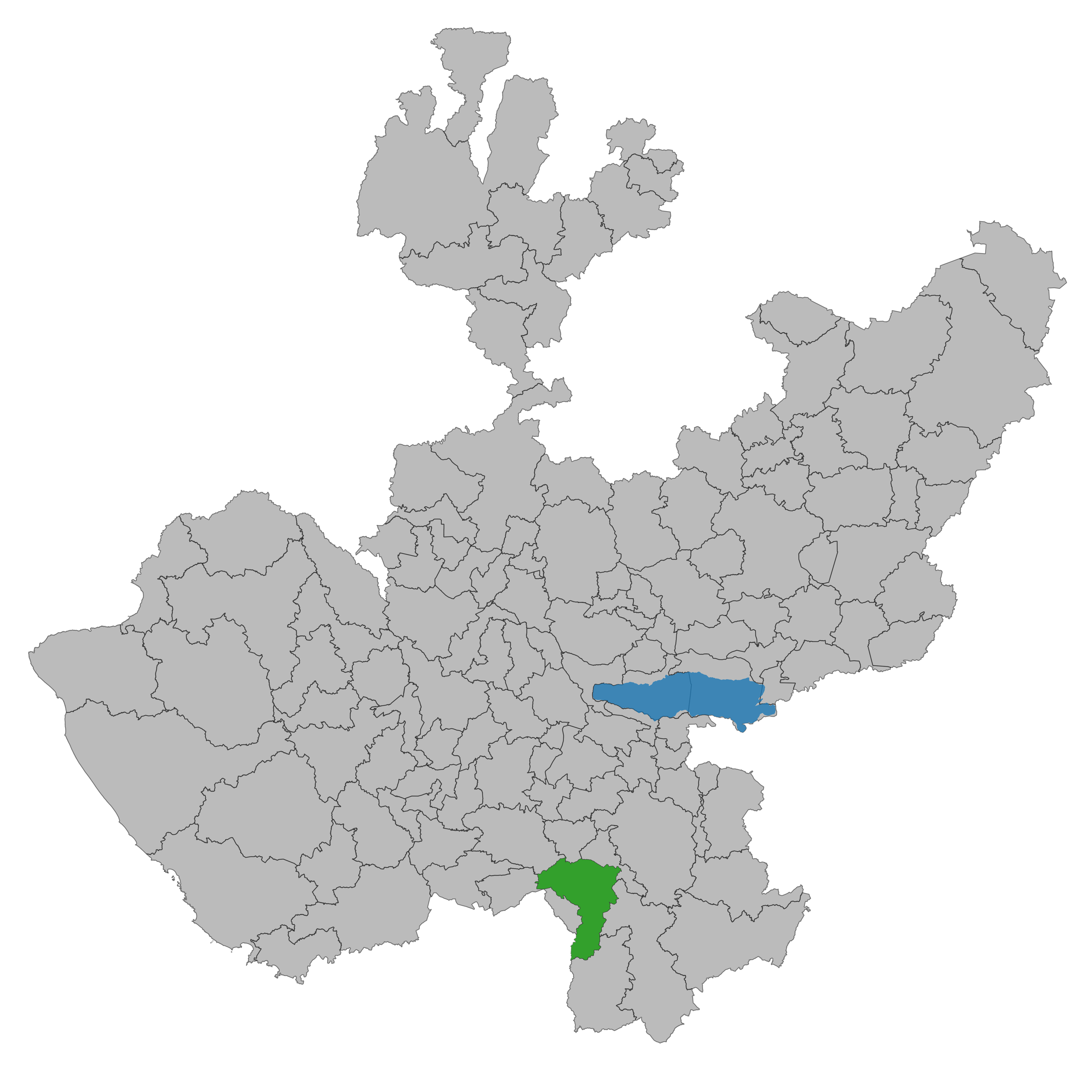 Municipality of Jalisco. Prepared with the software QGIS version 2.8.2 Wien & with information of SCINCE 2010 version 05/2013